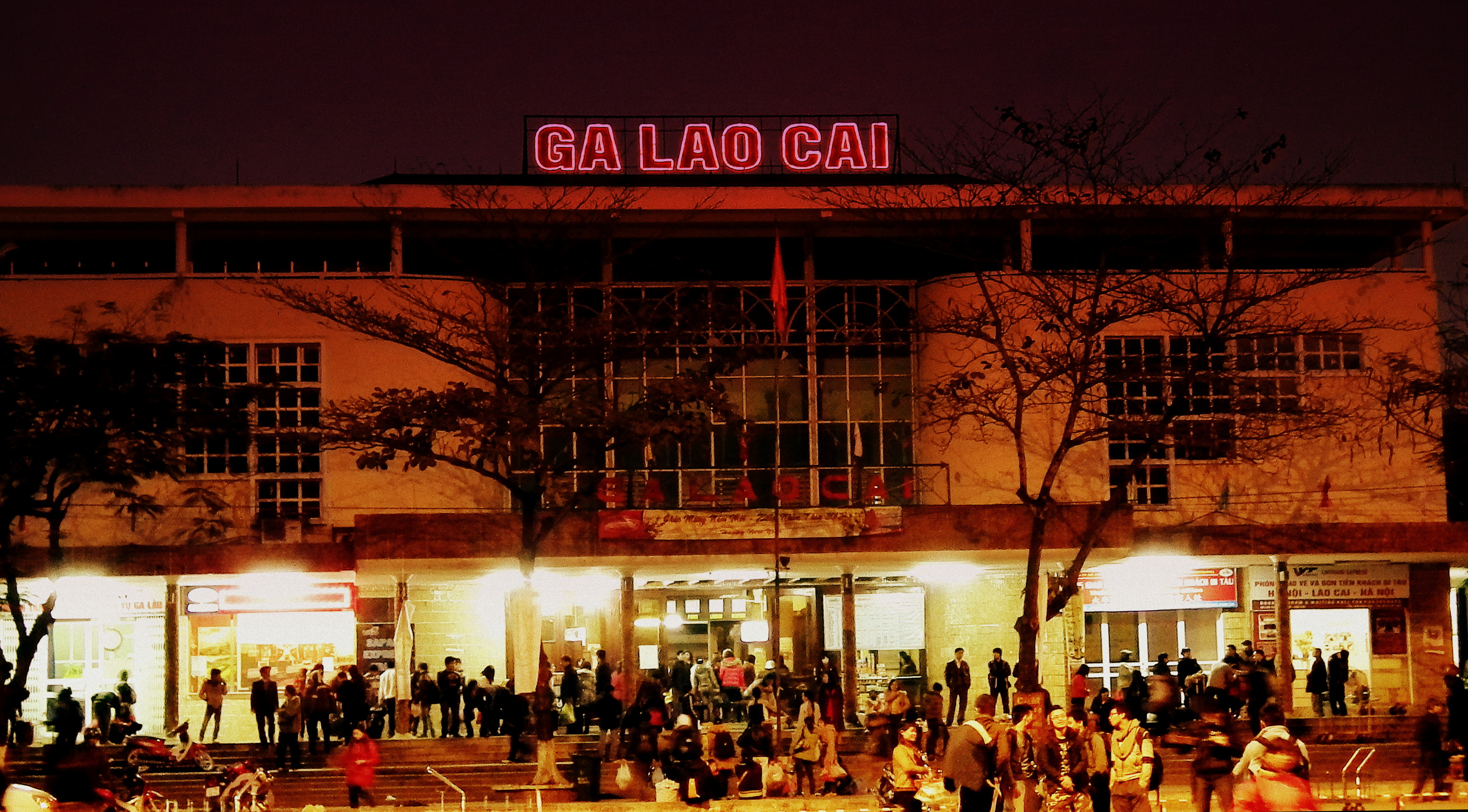 GA LAO CAI NORTHERN VIETNAM FEB 2012